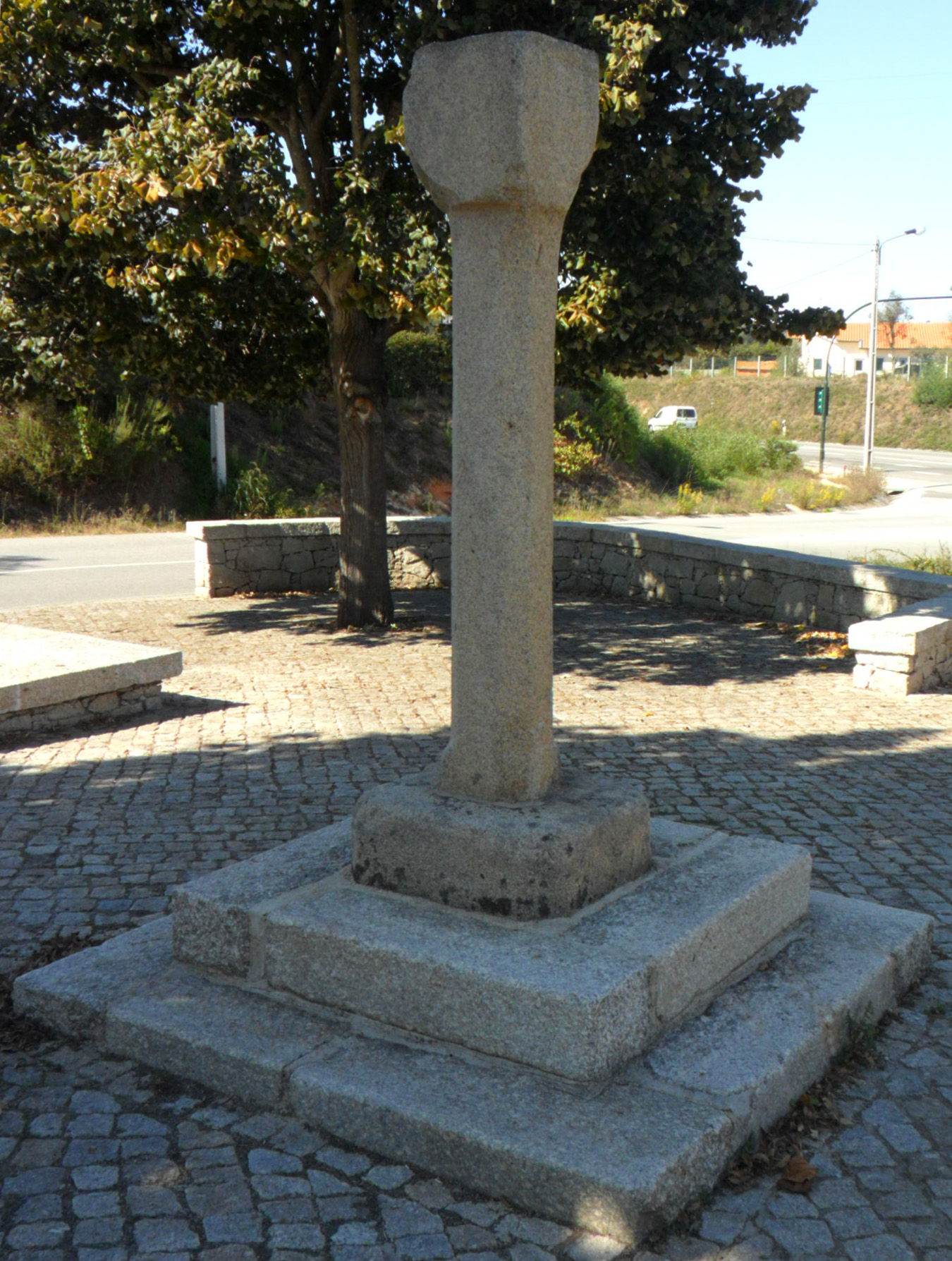 This file was uploaded for Wiki Loves Monuments in Portugal with the unique identifier 12712556.